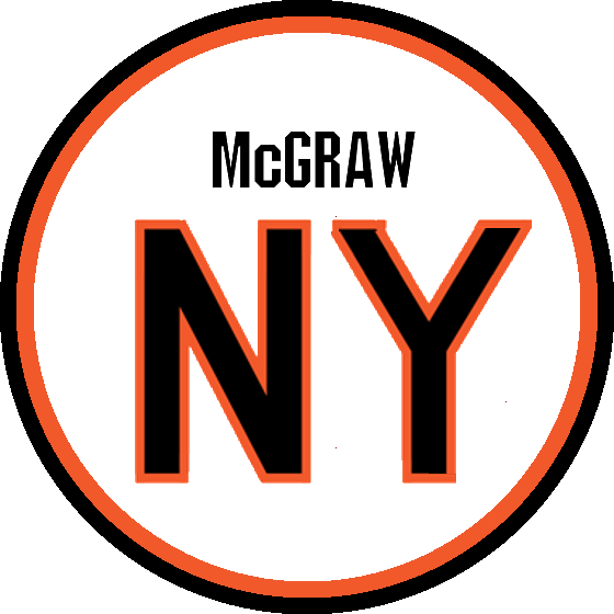 SF Giants retired number placard as shown inside stadium